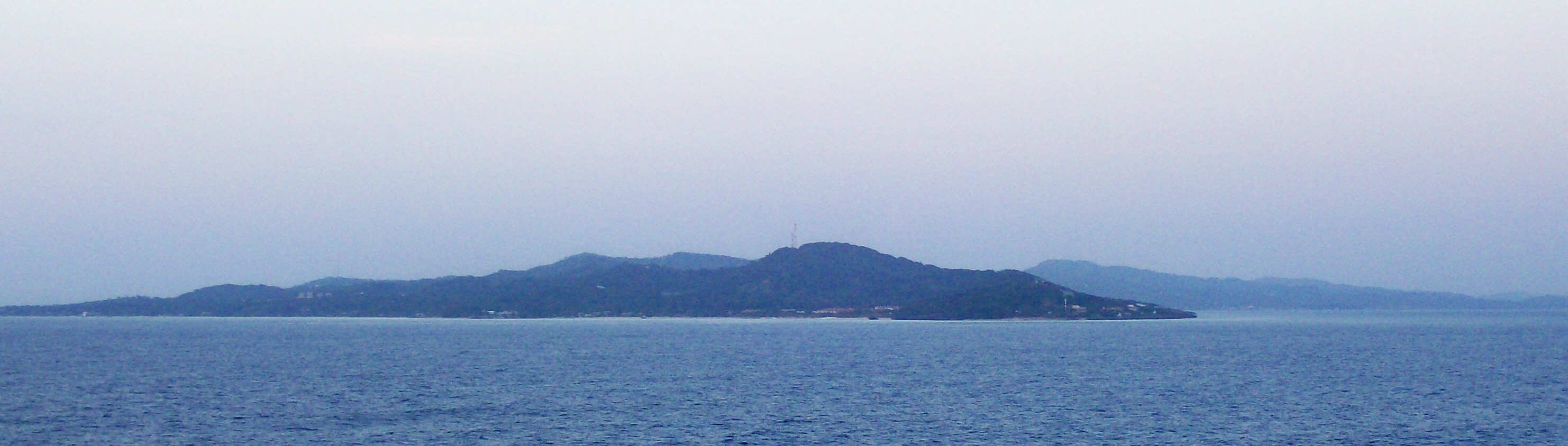 West End of Roatán, Bay Islands, Honduras